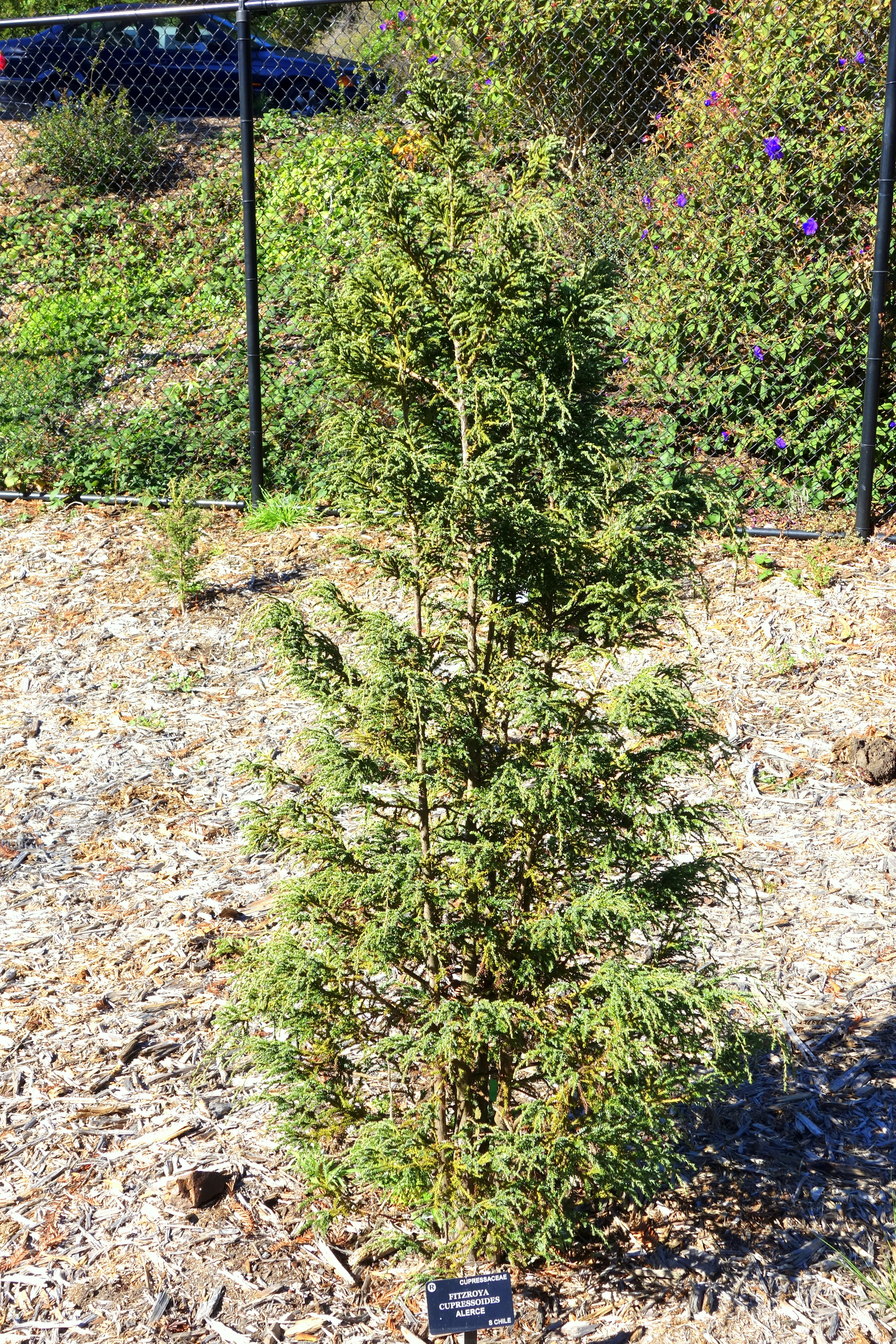 Botanical specimen in the San Francisco Botanical Garden, San Francisco, California, USA.